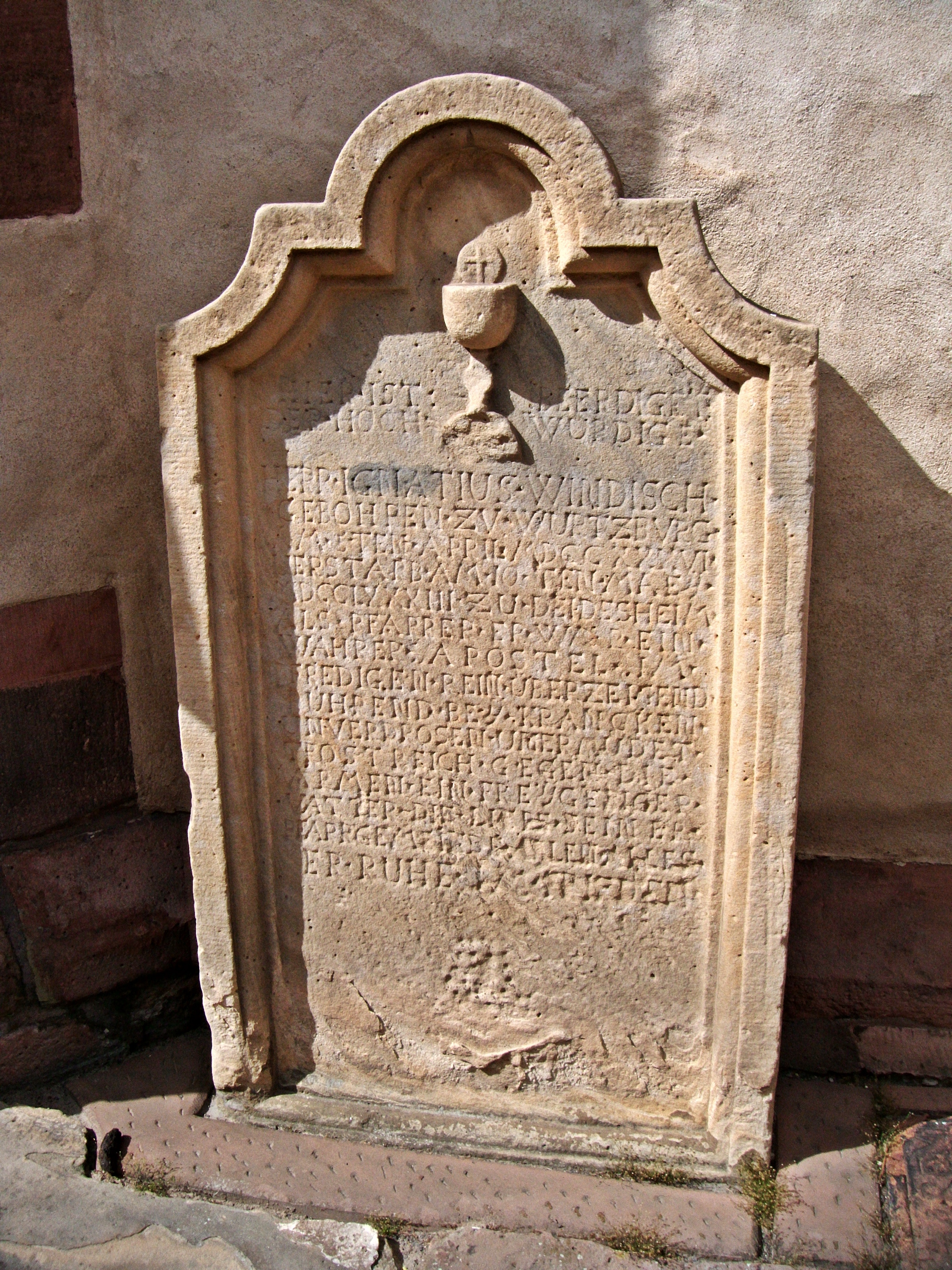 Grabstein des Jesuitenpaters und Pfarrers Ignaz Windisch (+ 1783), Deidesheim